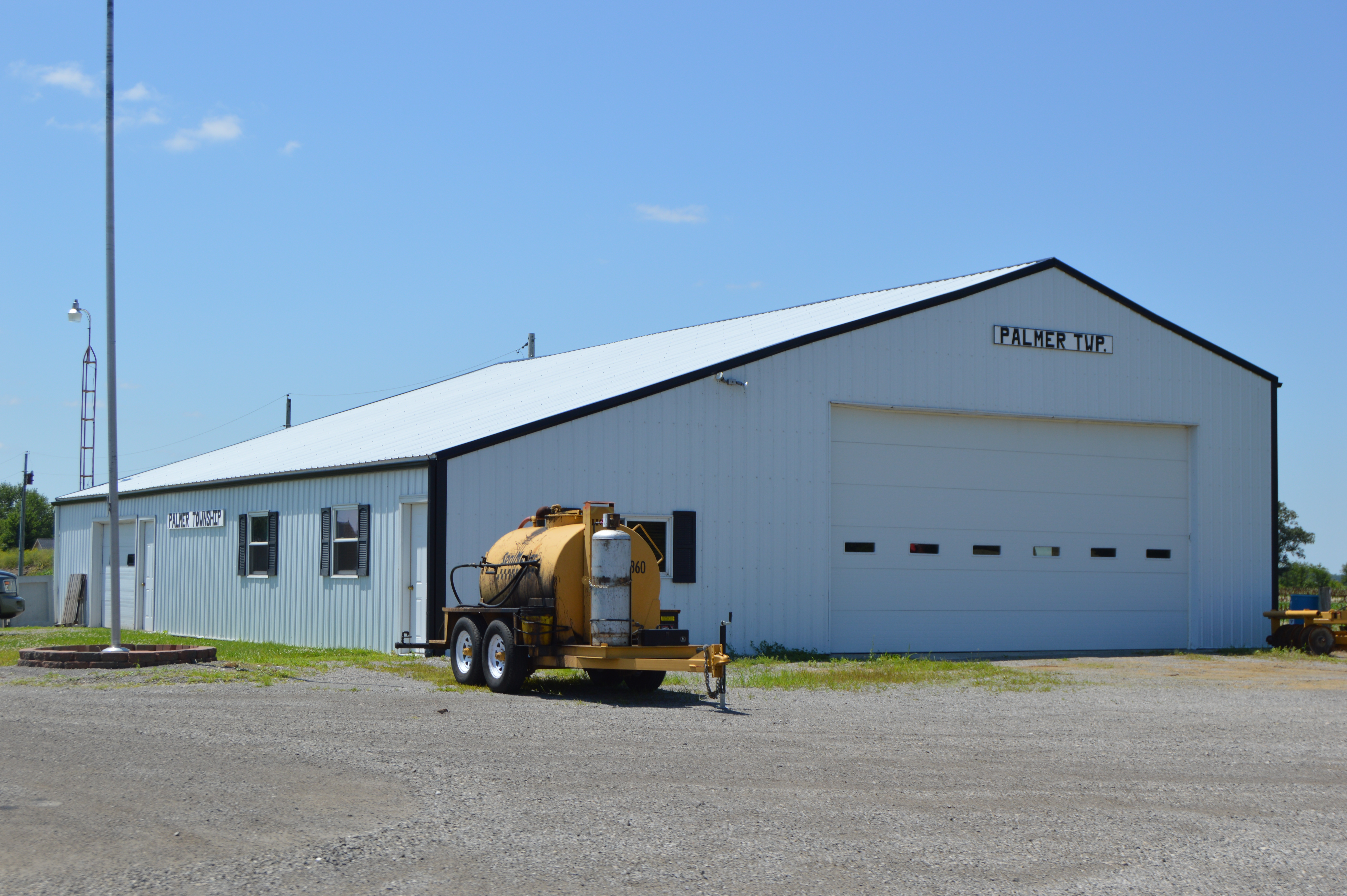 Front of the Palmer Township hall, located at the junction of State Route 108 and E Road just north of Miller City, Ohio, United States.